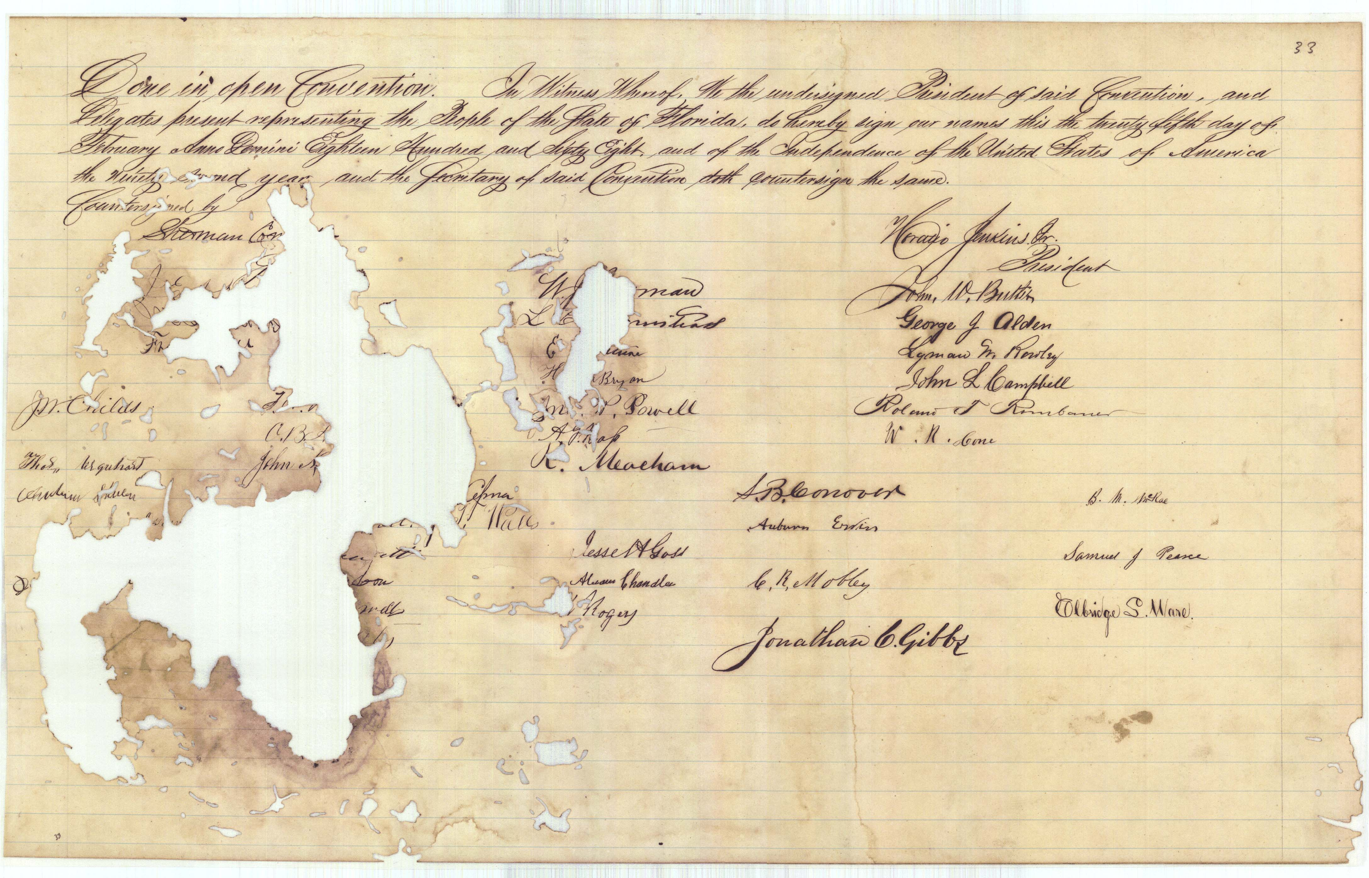 This image is available on The Florida Memory Project website . It is a digitally scanned image of an original document kept in the Florida State Archives. This document was produced in the 19th century and is over one hundred years old.